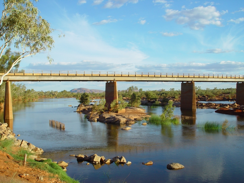 Ashburton river near Nanutarra roudhouse 24-4-2004